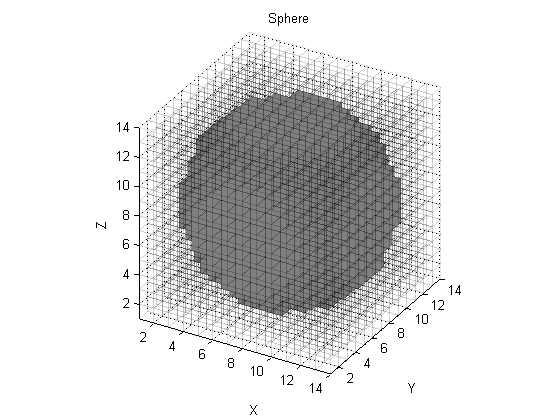 A 3D window containing a spherical feature of a 3D image